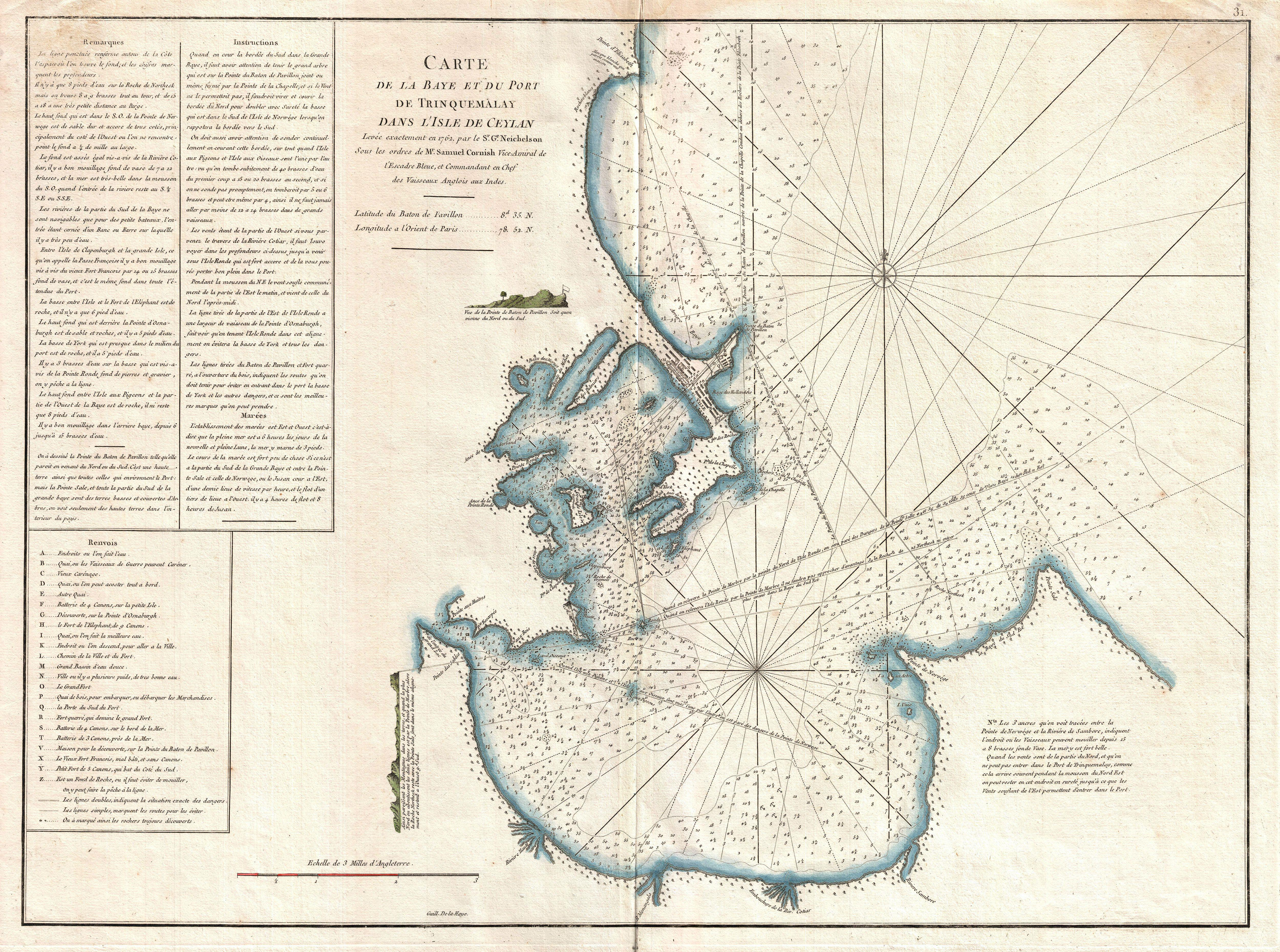 An extremely attractive large format 1775 maritime map or nautical chart of the port of Trincomalee, Ceylon (Sri Lanka) by Jean-Baptiste d'Après de Mannevillette. Trincomalee is natural deep water port on the east coast of Sri Lanka, about 110 miles northeast of Kandy. It is one of the main centers of Tamil speaking culture in Ceylon. Historically referred to as Gokanna or Gokarna it has been a sea port that has played a major role in maritime and international trading history of Sri Lanka. Throughout its long history Trincomalee has been an important and strategic port various colonial powers including the Portuguese, Dutch, French and British. Inland detail in minimalist but marine detail is excellent with well-defined coastlines, many rhumb lines, numerous harbors and ports noted, and countless depth soundings. Detailed sailing instructions fill the upper left quadrant. Mannevillette’s chart marks a considerable advancement over previous nautical maps of this region. Engraved by De La Haye for Jean-Baptiste d'Après de Mannevillette’s 1775 Neptune Oriental .